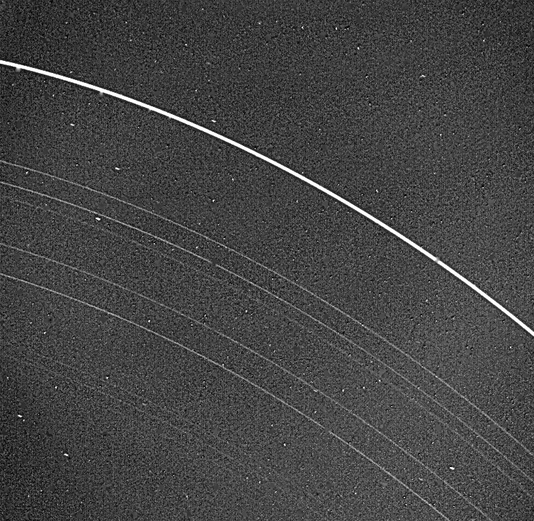 Voyager 2 picture of Uranus' rings taken on January 22, 1986, from a distance of 2.52 million kilometers. Nine rings are visible in this image, a 15-second exposure through a clear filter. The most prominent and outermost of the nine, called epsilon, is seen at top. The next three in toward Uranus — called delta, gamma and eta — are much fainter and more narrow than the epsilon ring. Then come the beta and alpha rings and finally the innermost grouping, known simply as the 4, 5 and 6 rings. The last three are very faint and are at the limit of detection for the Voyager camera. The bright dots are imperfections on the camera detector. The resolution scale is approximately 50 km (30 mi).